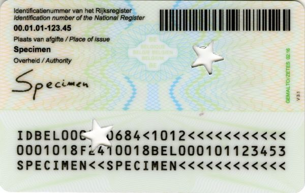 National identity card of Belgium (dutch, verso)